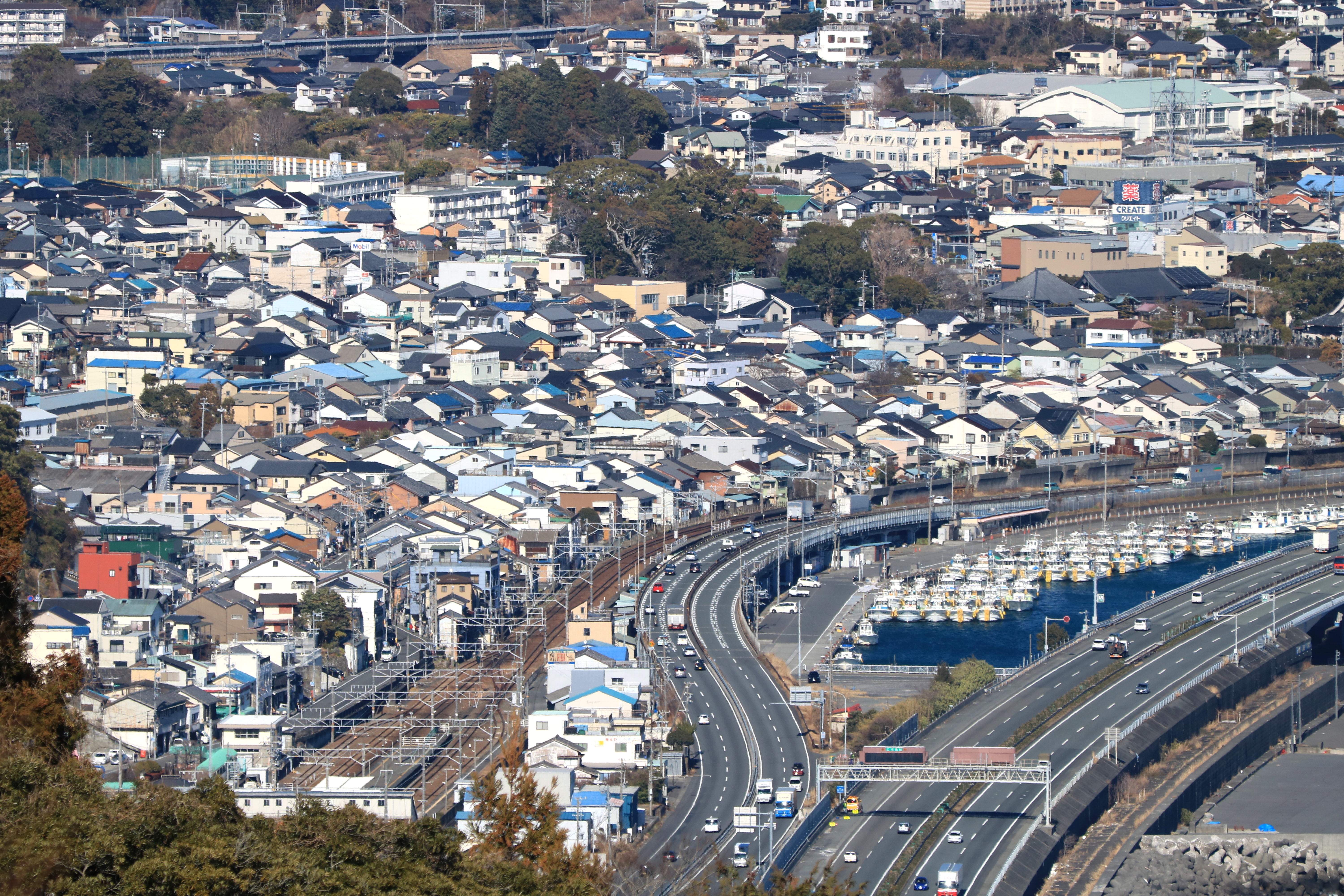 Yui Station, Route 1 (Fuji-Yui Bypass), Port of Yui and Tōmei Expressway seen from Sata in Yui, Shimizu-ku, Shizuoka City, Shizuoka Prefecture, Japan. Canon EOS Kiss X8i